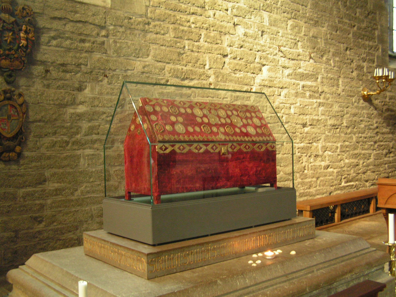 Shrine of Saint Bridget of Sweden